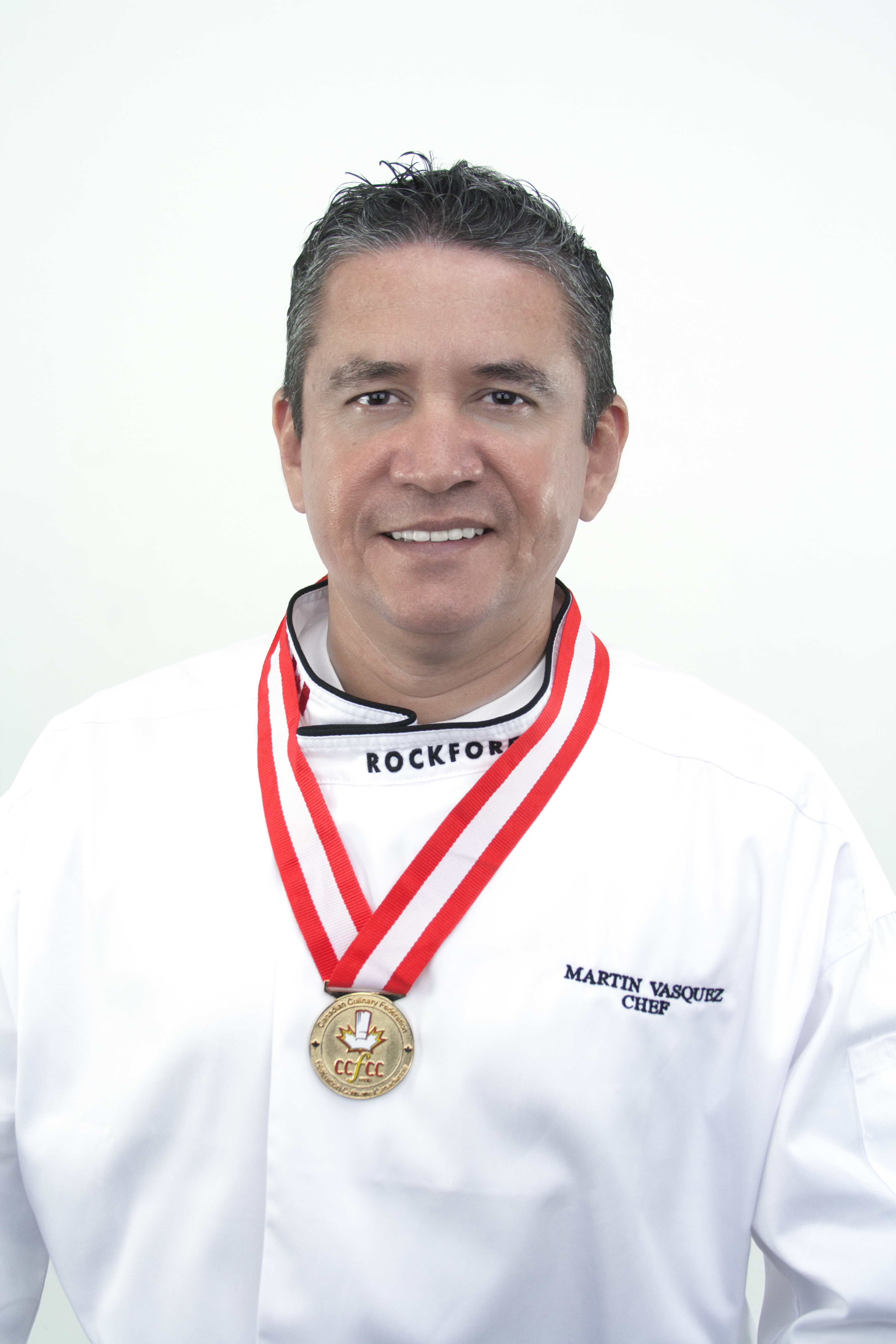 Chef Colombiano